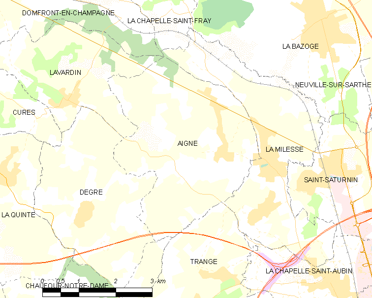 Map of French municipality